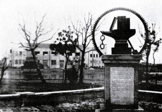 SJTU monument of Yinshui Siyuan located in Xuhui Campus, Shanghai in 1933.